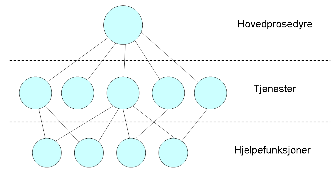 Monolithic operating system, text in Norwegian